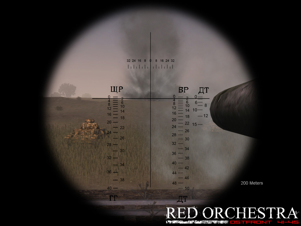 Red Orchestra canonier-view from a T-34 tank